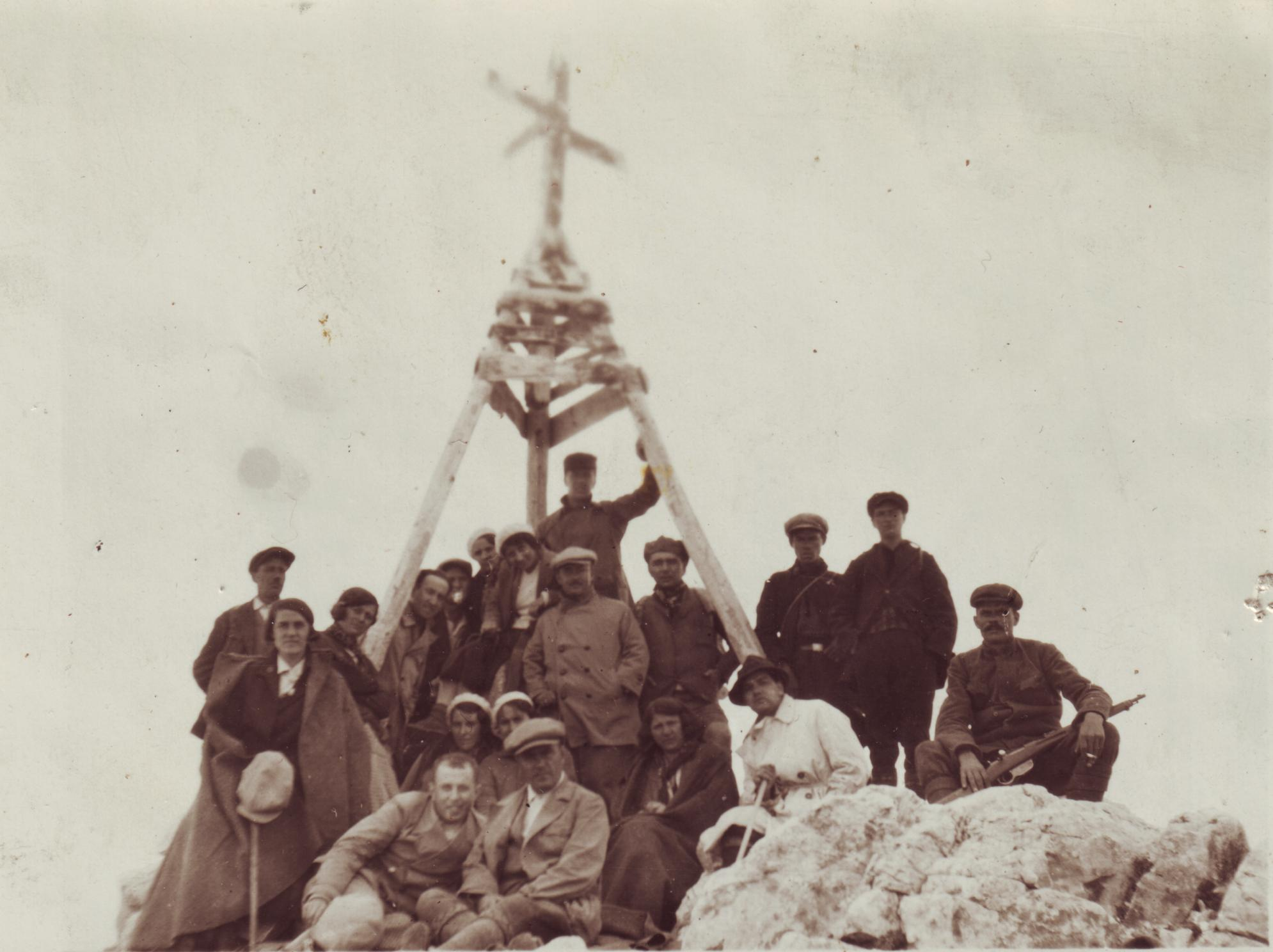 Pancho Toshev in center of this photo. He was District attorney from IMRO in Pirin region.